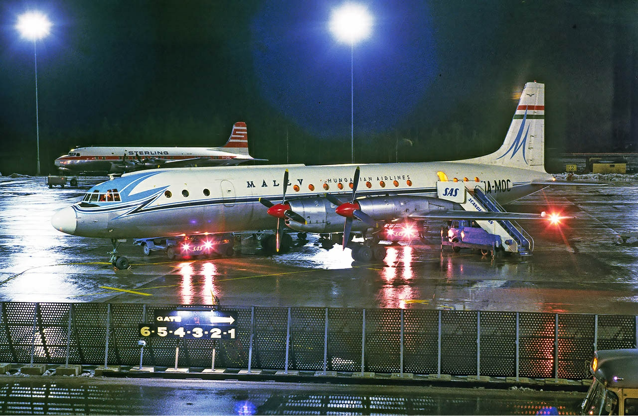 Malev Ilyushin Il-18D